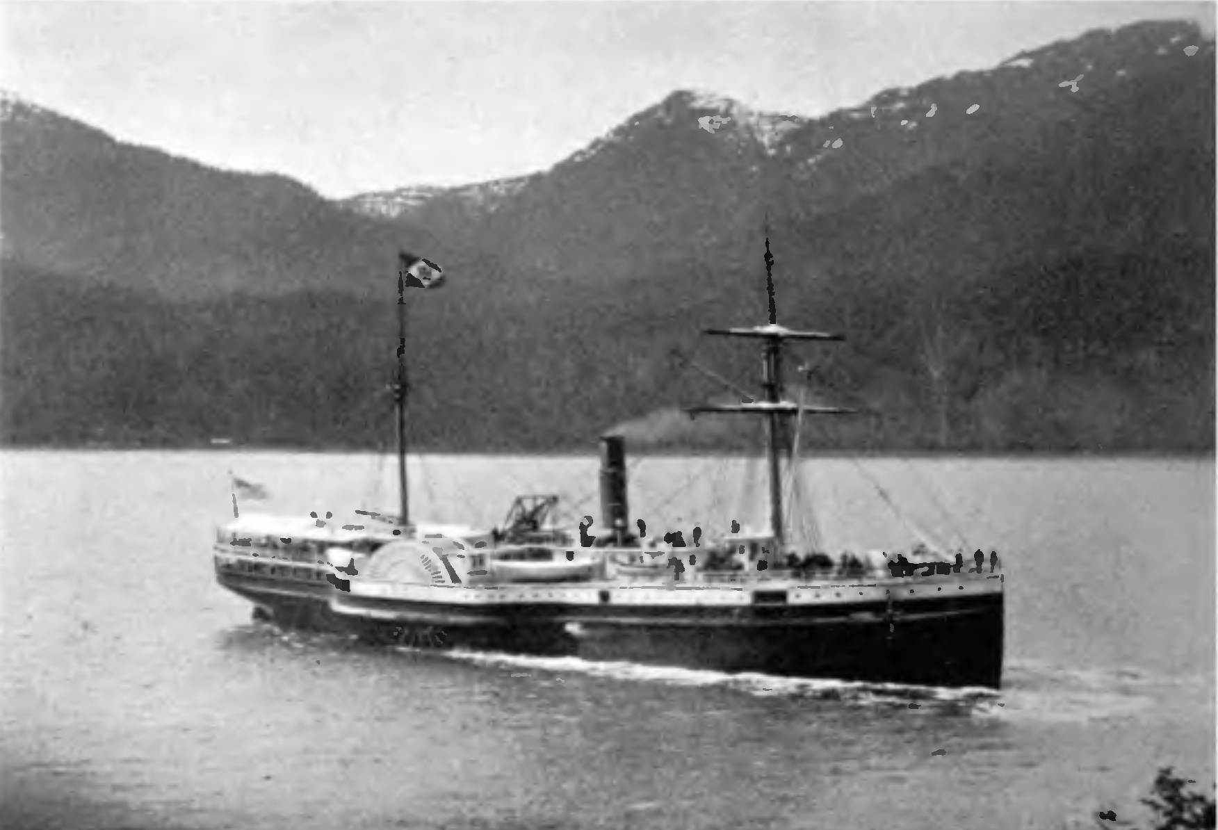 steamship Ancon sometime between 1875 and 1889